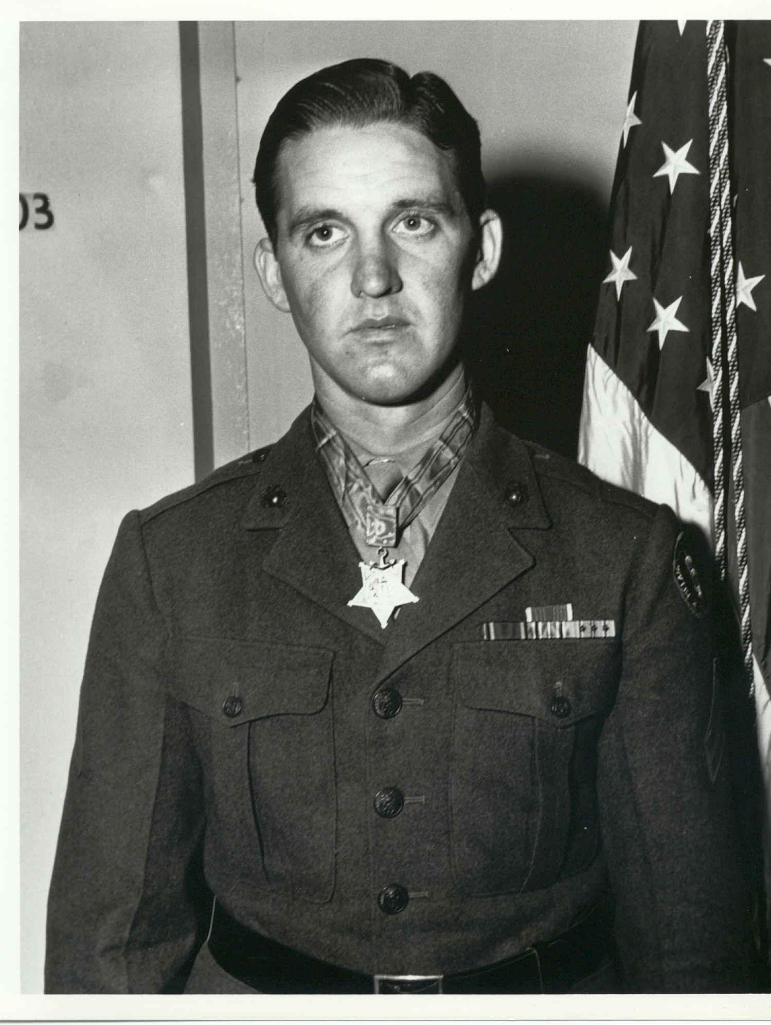 Corporal Richard E. Bush, USMC, World War II Medal of Honor recipient.